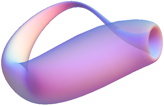 Klein Bottle with slight transparency, rendered with Mathematica 8 using the parameterisation provided by Robert Israel.